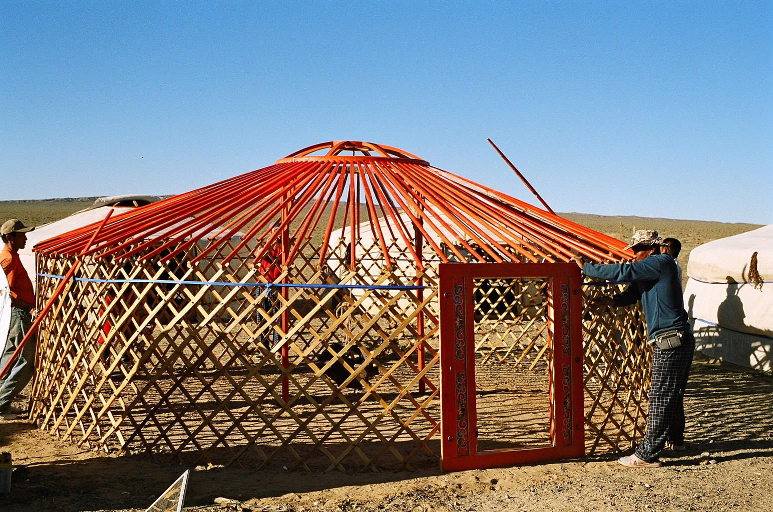 Mongolian ger: with roof poles in place